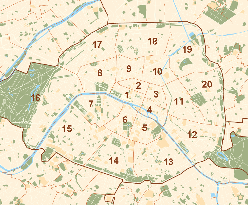 Plan by ThePromenader (own work) with numbers in map.